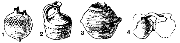 An illustration from the Encyclopaedia Biblica, a 1903 publication which is now in the public domain. Fig. 1 for article "Pottery". Image of Canaanite pottery prior to 1500 BC. In the late 19th and early 20th centuries, this was also sometimes called 'Amorite' pottery. The Images ultimately originate from the earlier archaeological work Mound of Many Cities by Frederick Jones Bliss, about the finds at Tell El-Hesi Pot 1 = Bliss' image number 83 Pot 2 = Bliss' image number 02 (this may be a typographic error for 62 or 82) Pot 4 = Bliss' image number 93